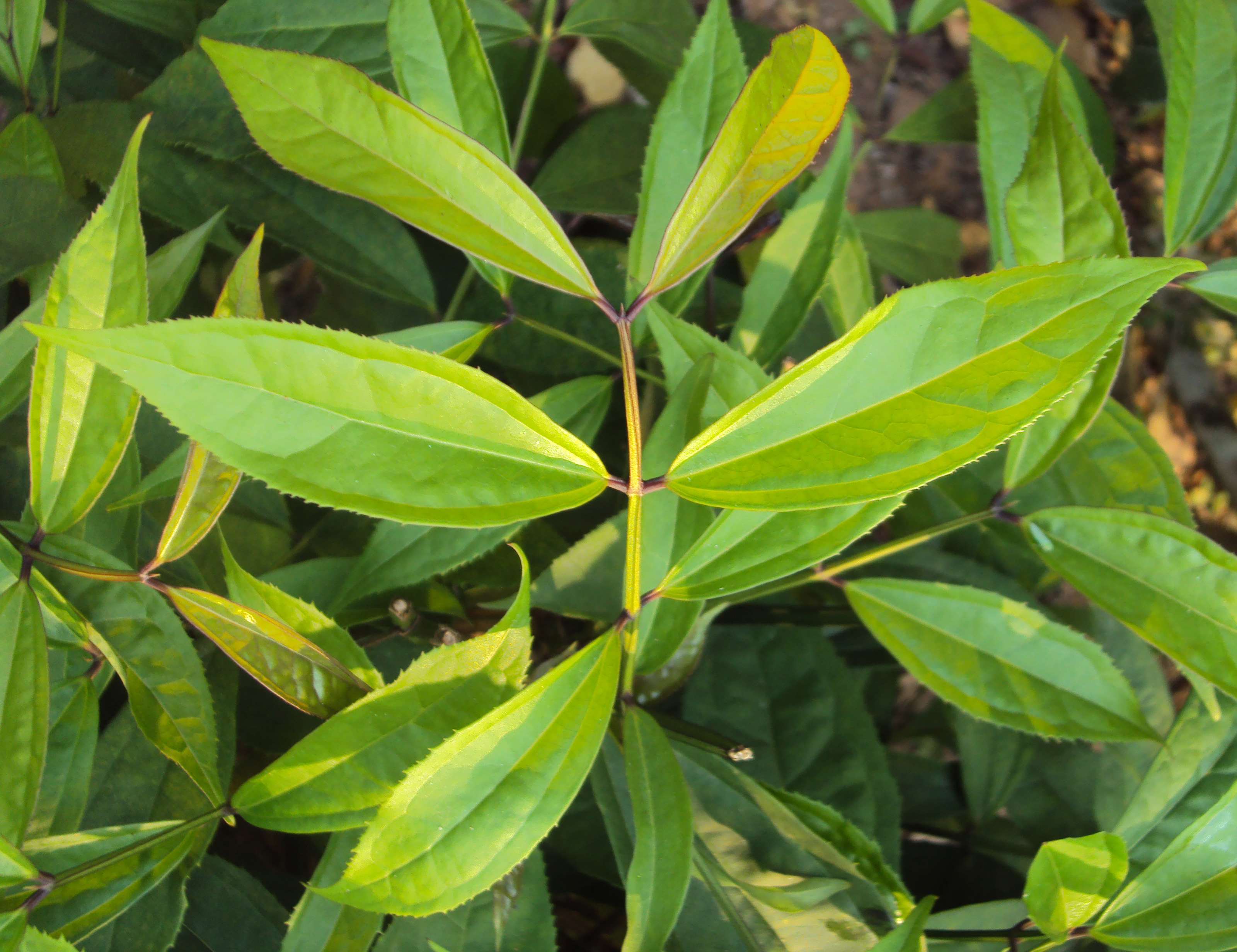 ചതുരമുല്ല